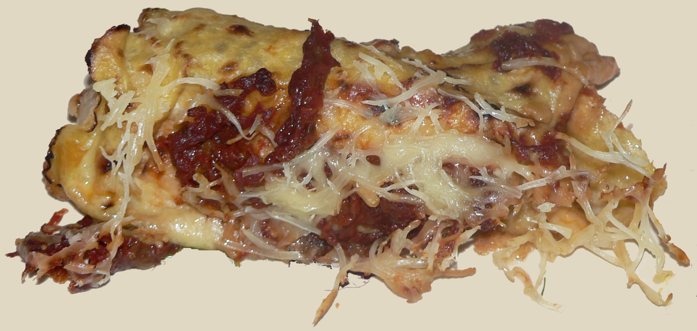 Crêpe stuffed with cheese, ham, mushrooms, with a tomato sauce